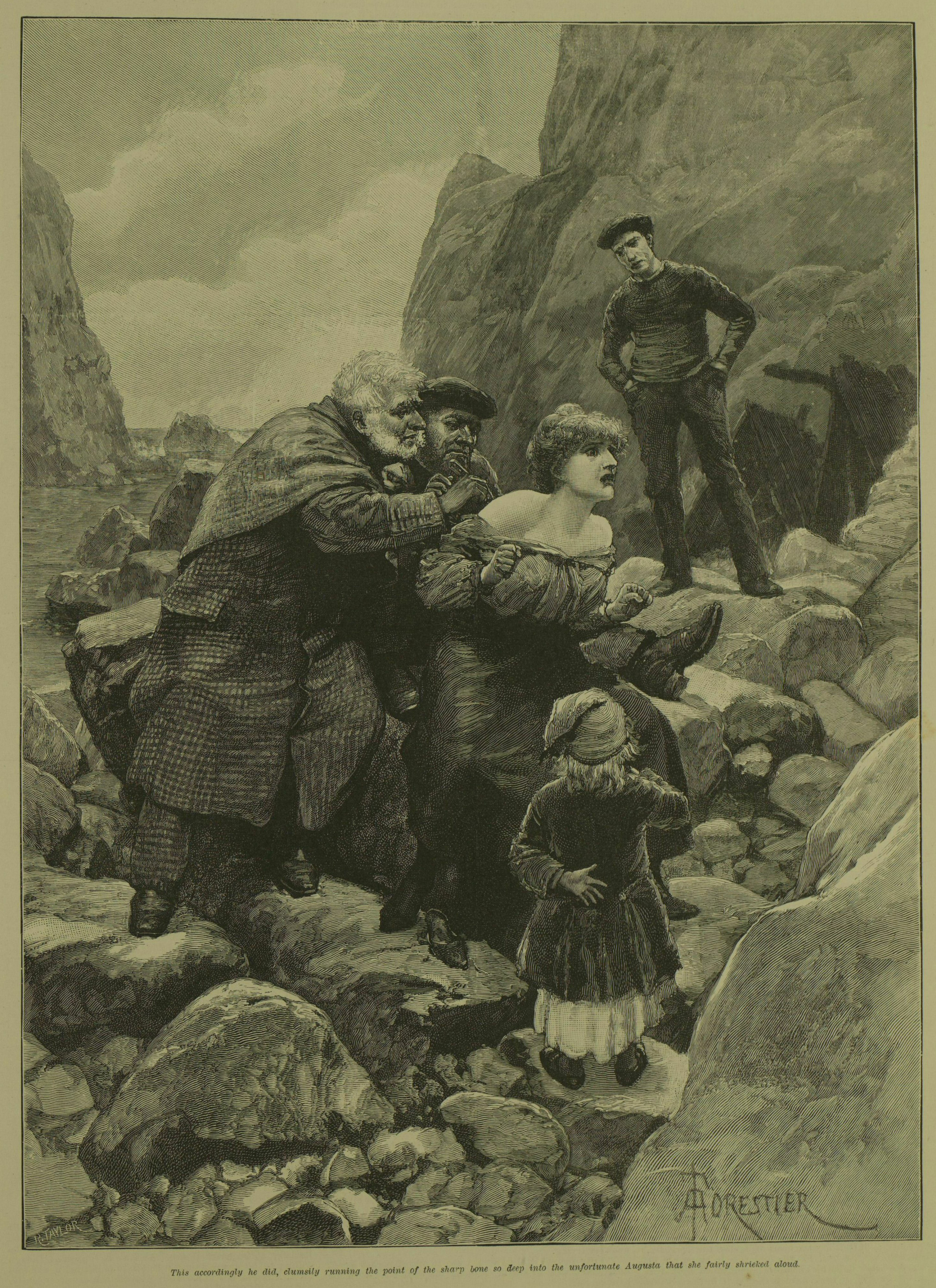 An illustration by A Forestier, from the H. Rider Haggard short story "Mr. Meeson's Will", published in The Illustrated London News, June 1888